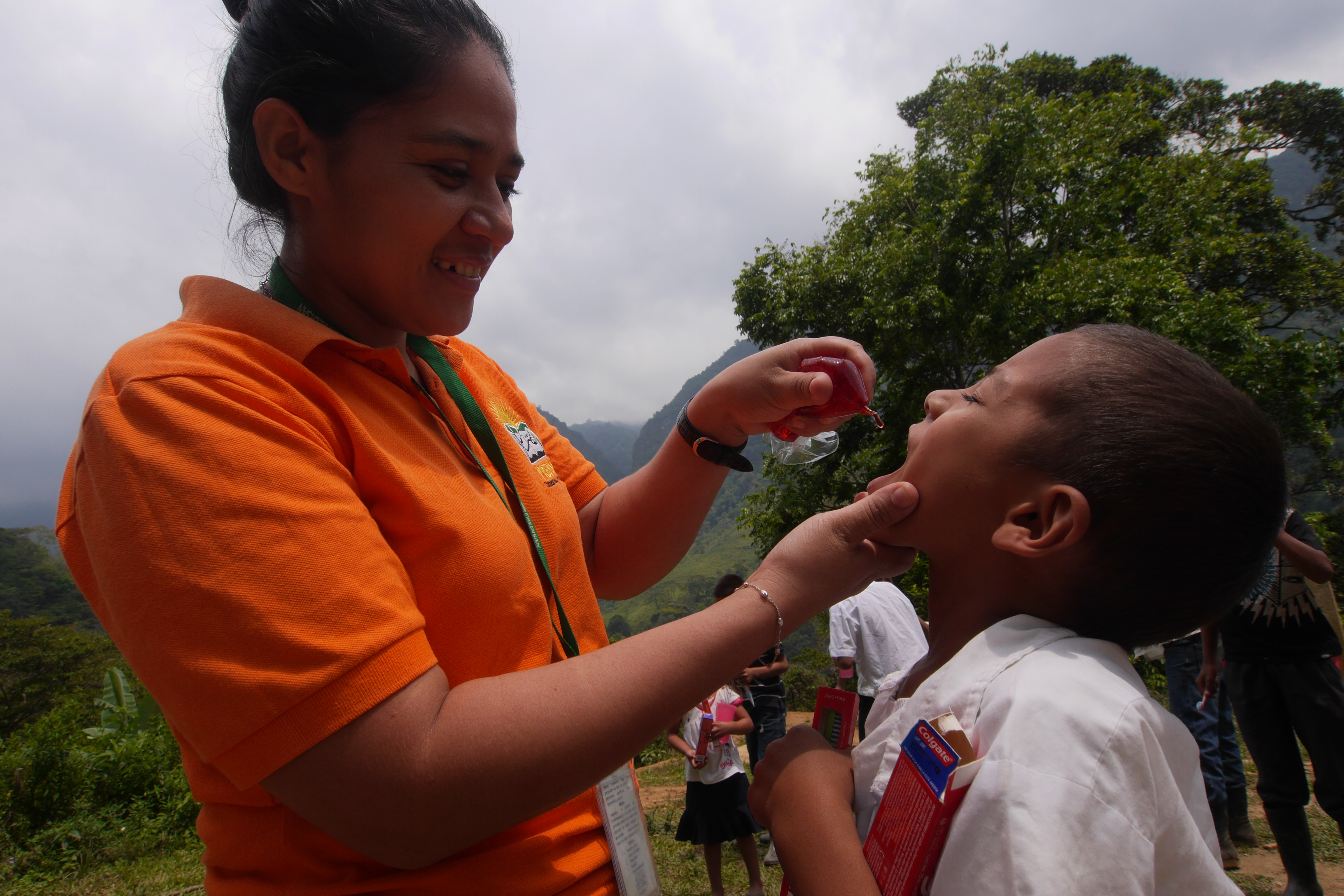 Aury Navarro, a Nursing Assistant with Predisan, pours a fluoridated rinse into the mouth of child in the rural mountain village of Esperanza in the Sierra Agalta Rainforest near Catacamas, Honduras. Promoting oral hygiene in rural communities located far from established healthcare services is part of Predisan’s holistic approach to physical, spiritual and community health among economically disadvantaged Hondurans.